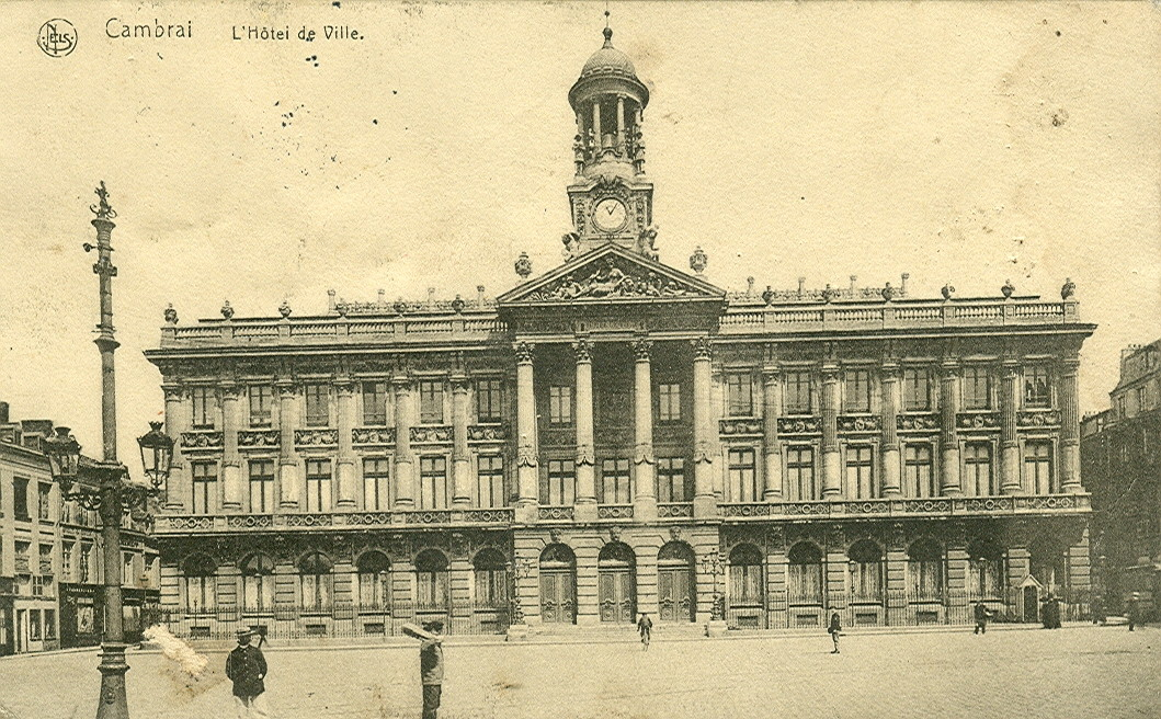 Postcard, dated 6.4.1916. Title: "Cambrai - Town hall"